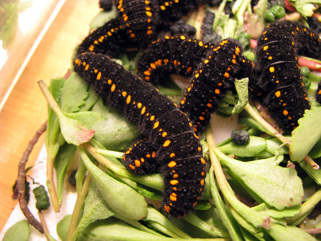 Parnassius apollo live larva